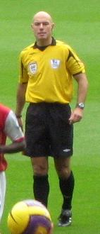 English football (soccer) referee Howard Webb